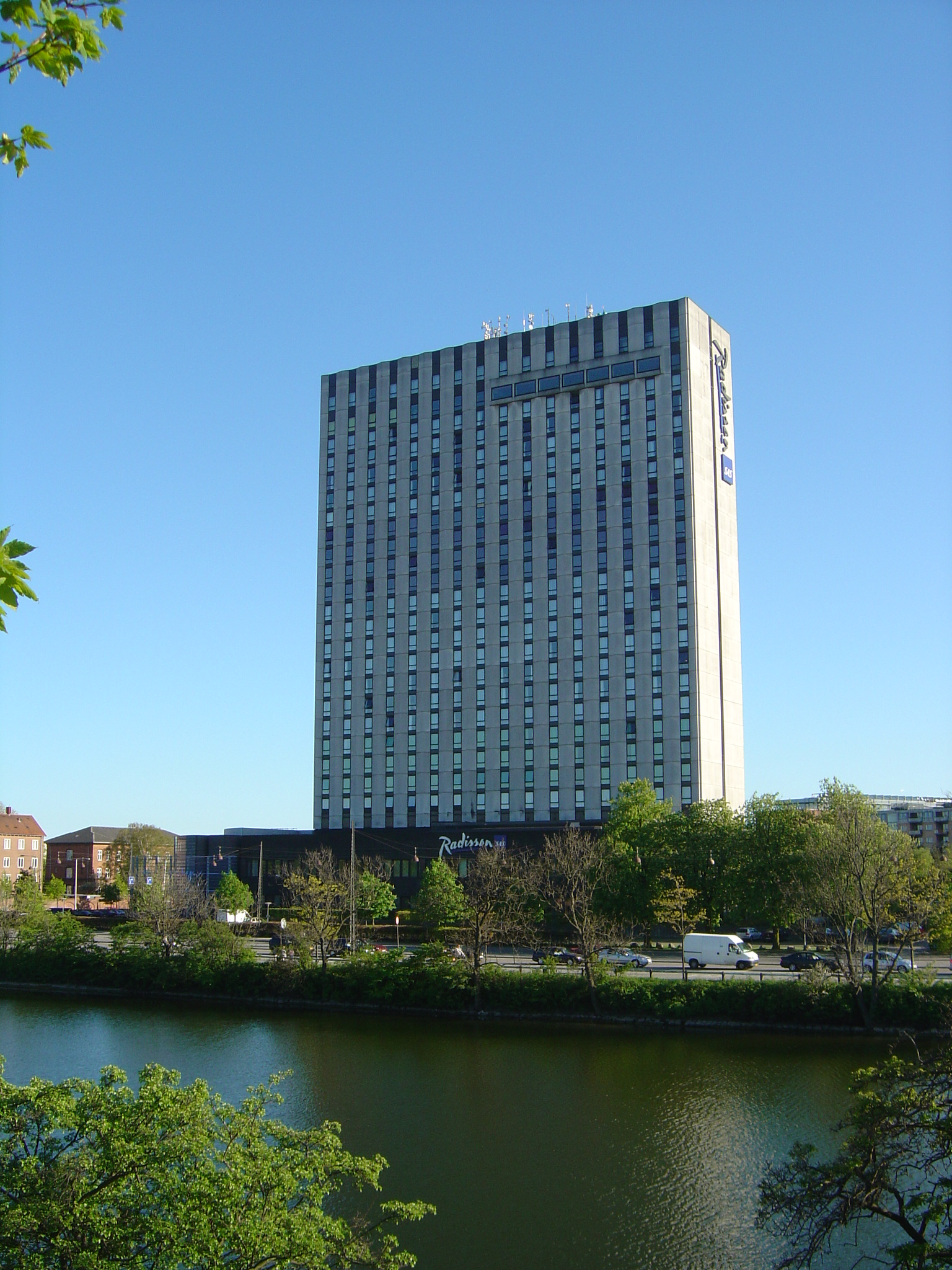 Radisson SAS Scandinavia Hotel - a Danish hotel located on Amager, Copenhagen. Seen from Københavns Voldgrav (water) north of the hotel.